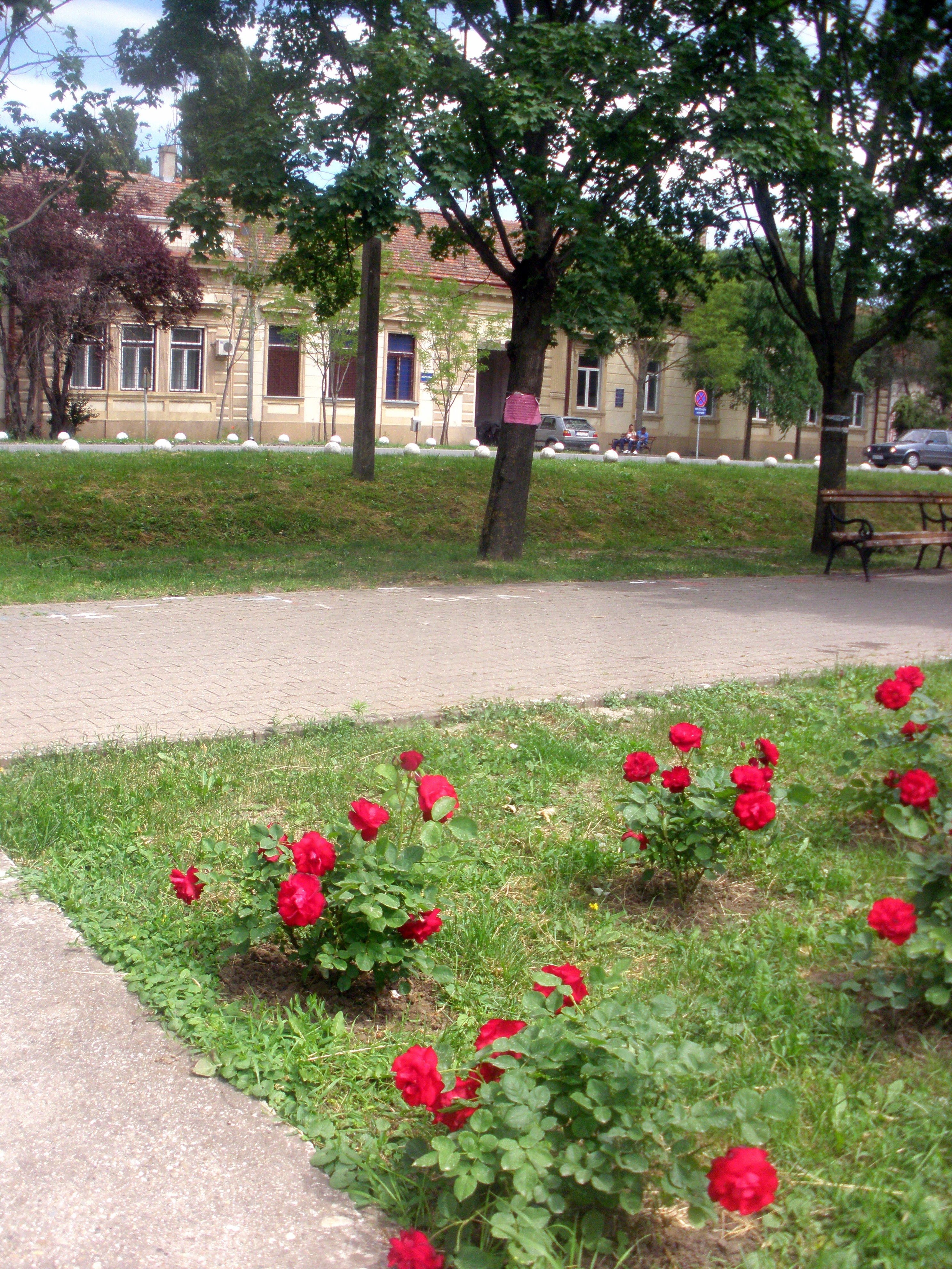 Park in center of Melenci with native house of Marija Margita Bogner